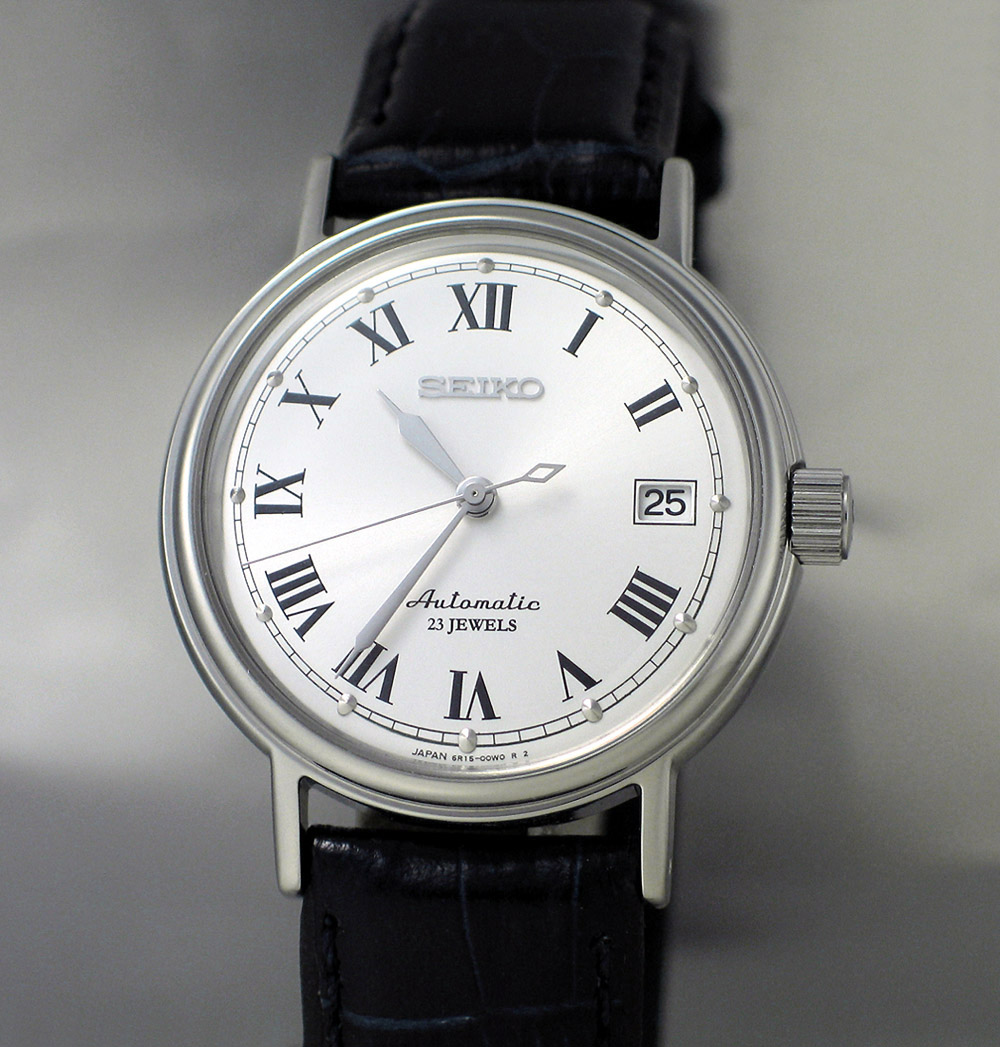 Wristwatch with roman numerals, IIII in stead of IV